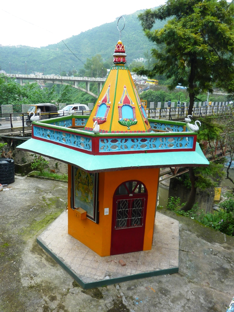 I took this photo of the temple myself on a trip to Mandi